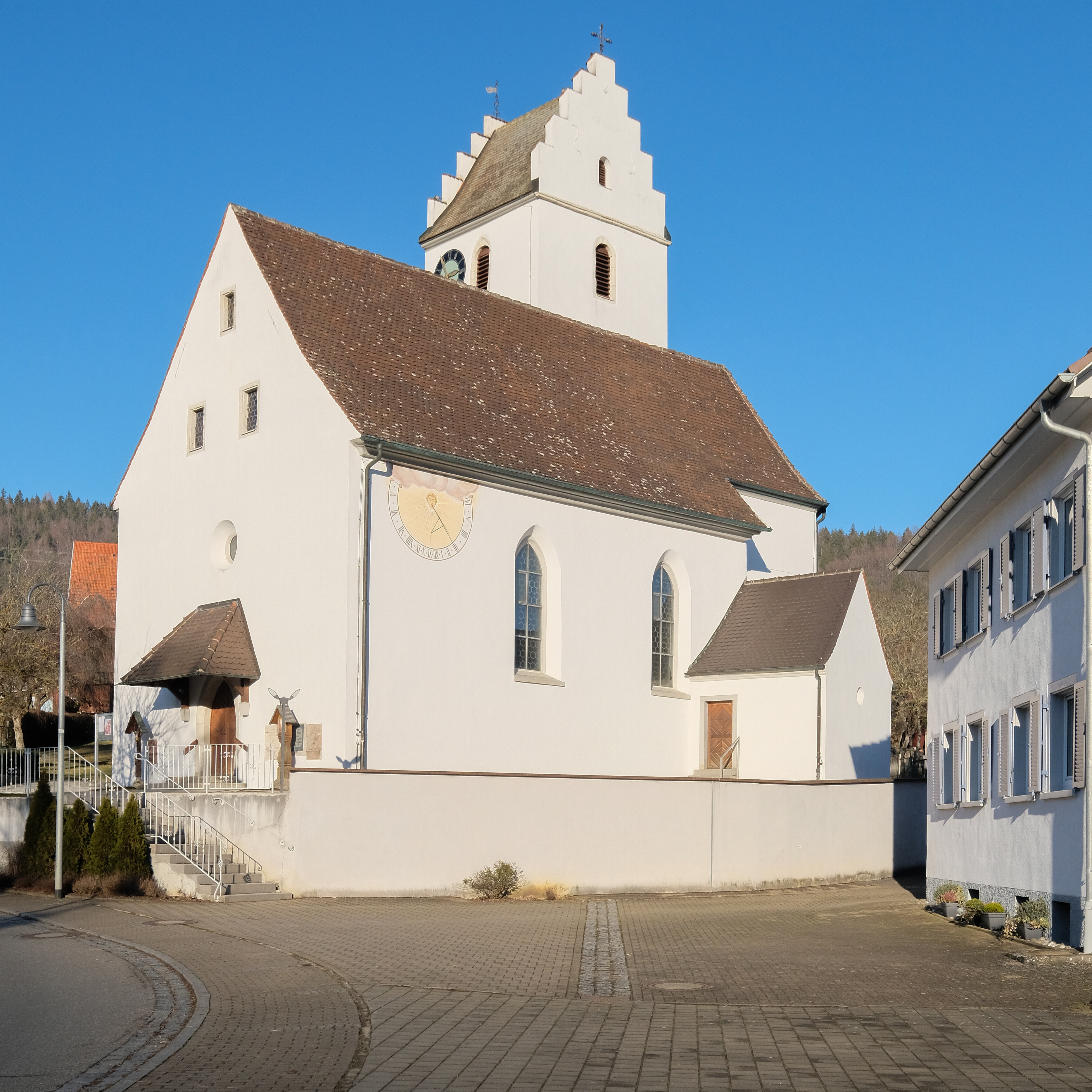 Church St. Priska, Immendingen–Ippingen, district Tuttlingen, Baden-Württemberg, Germany